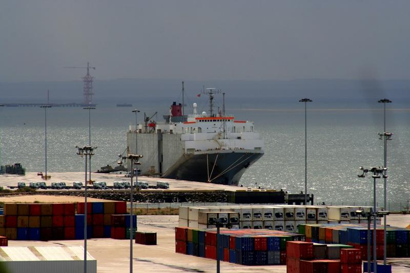 Car carrier Australian Highway in Setúbal, Portugal